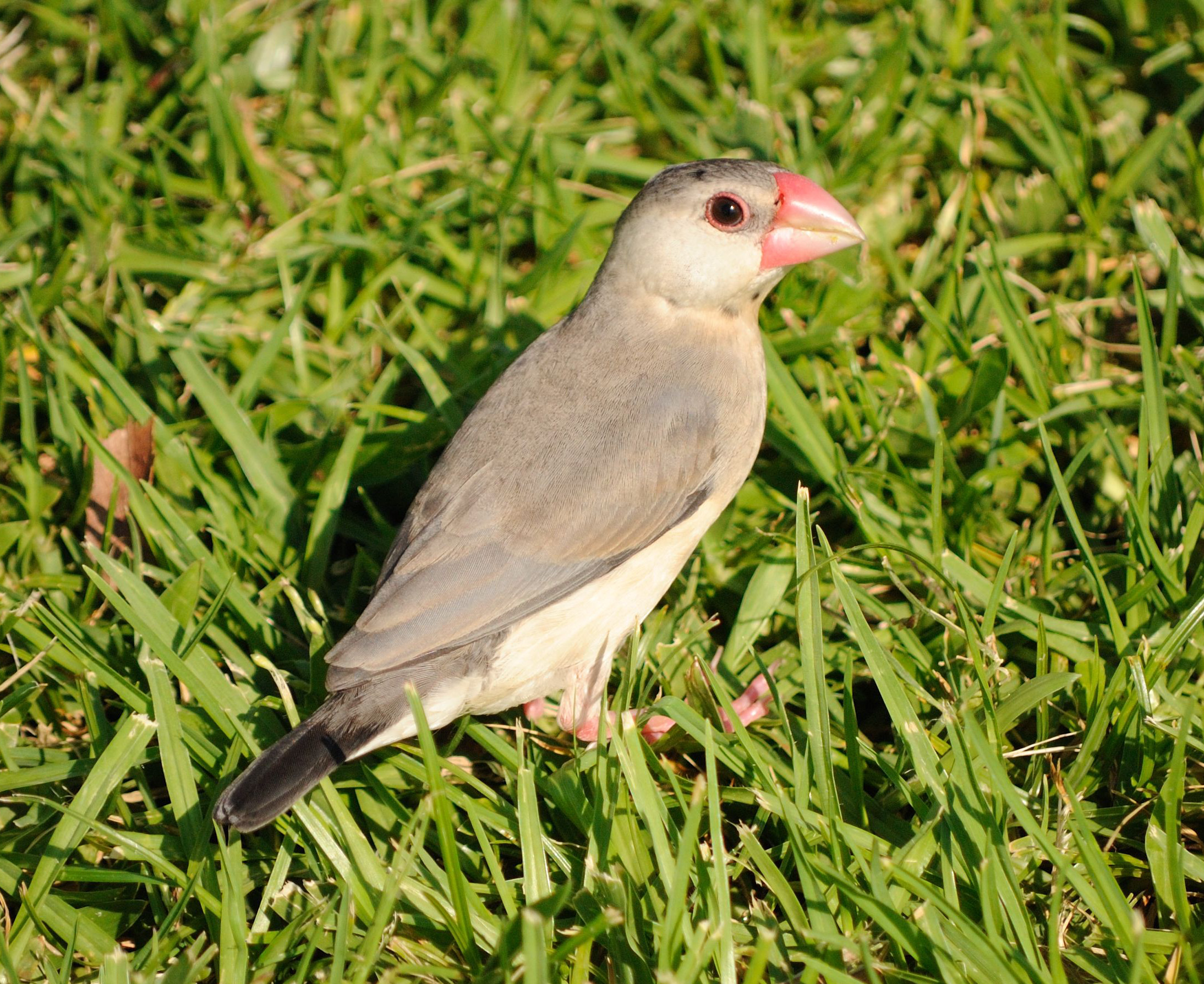 An immature Java Sparrow (also known as Java Finch and Java Rice Bird) in Honolulu, Hawaii, USA.